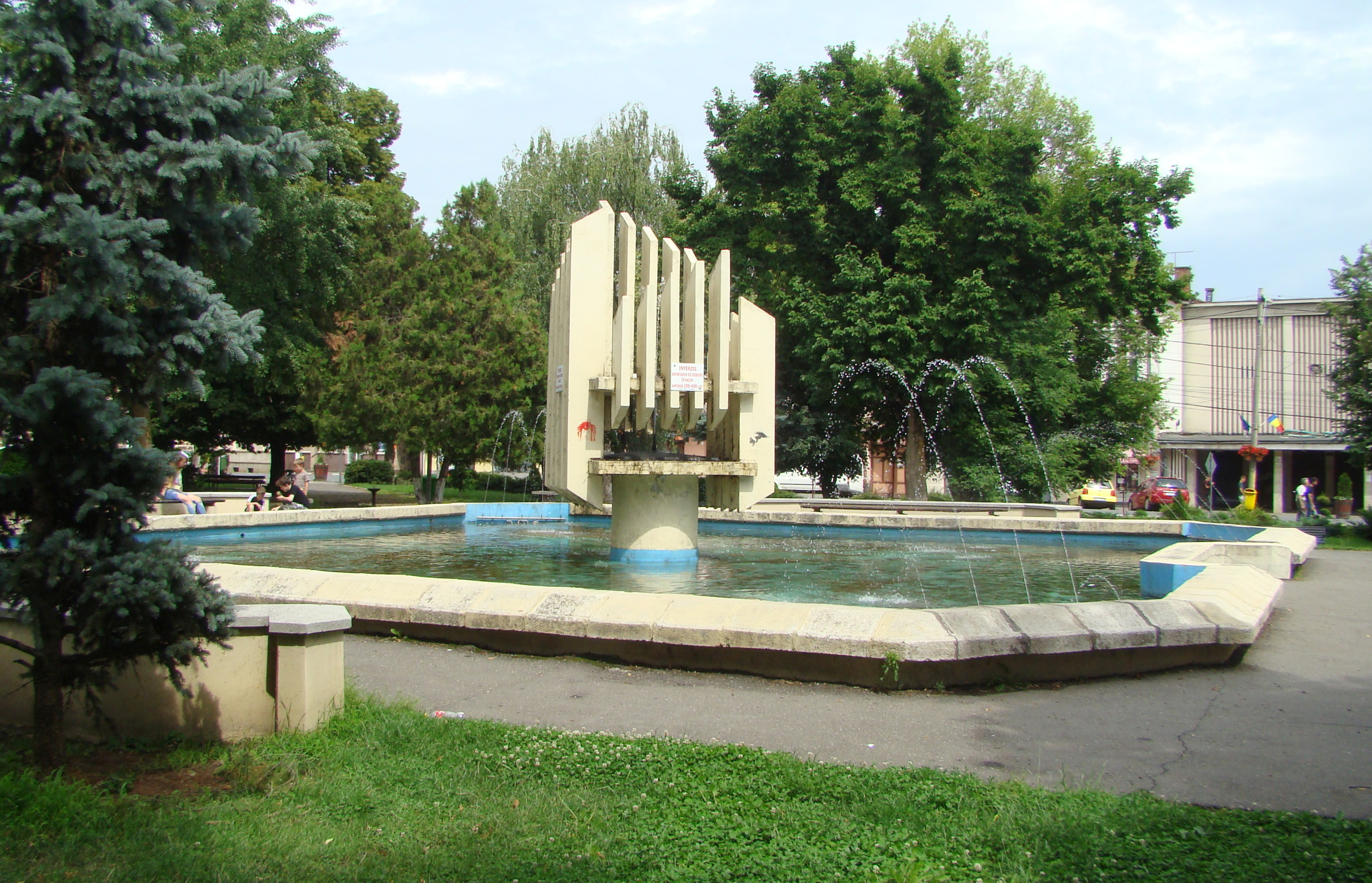 Fountain in Central Park in Reghin, Mureş county, Romania